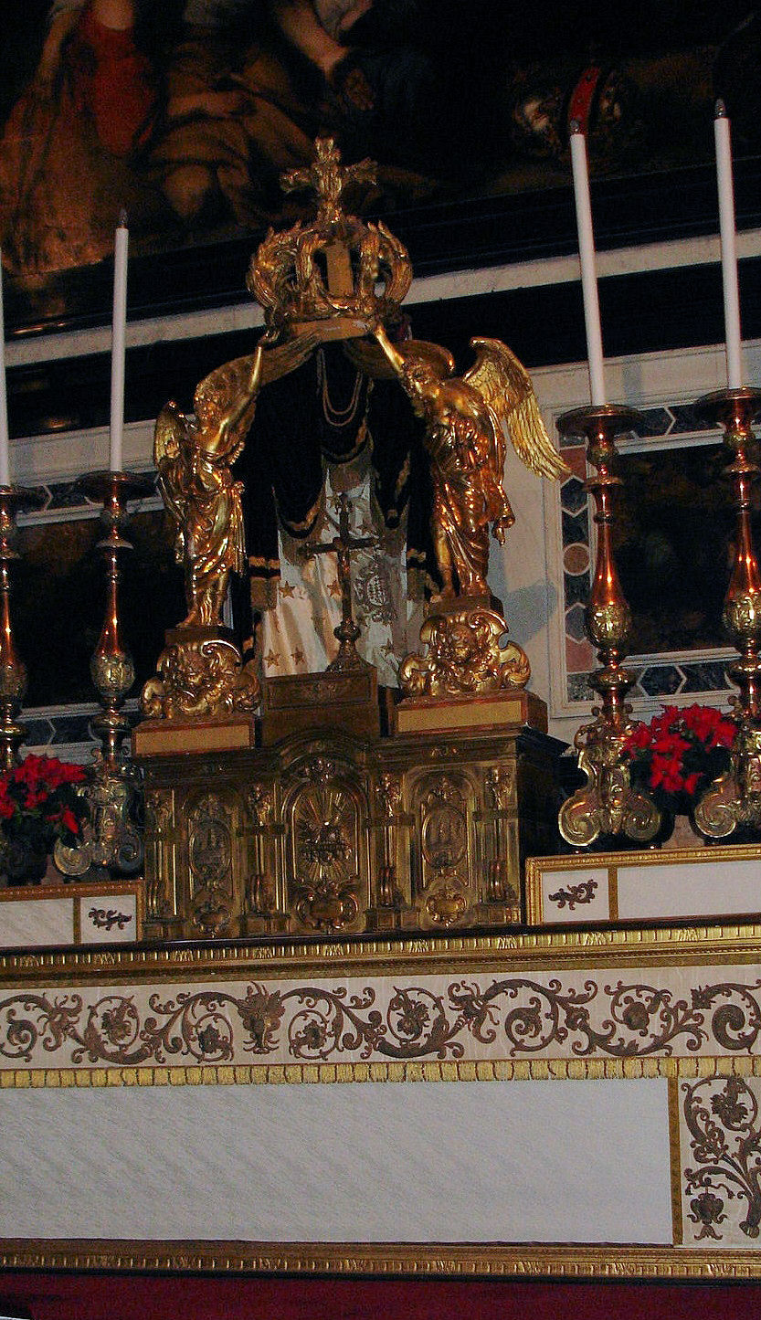 own picture taken today, Carolus 19:22, 4 January 2007 (UTC)